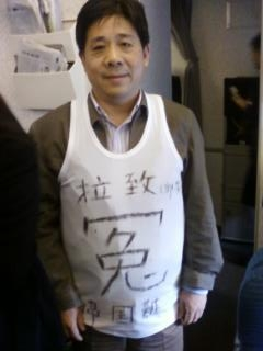 Feng Zhenghu, wearing a shirt with his appeal, gets off All Nippon Airways Flight NH0922 in Japan on 2009-11-4.